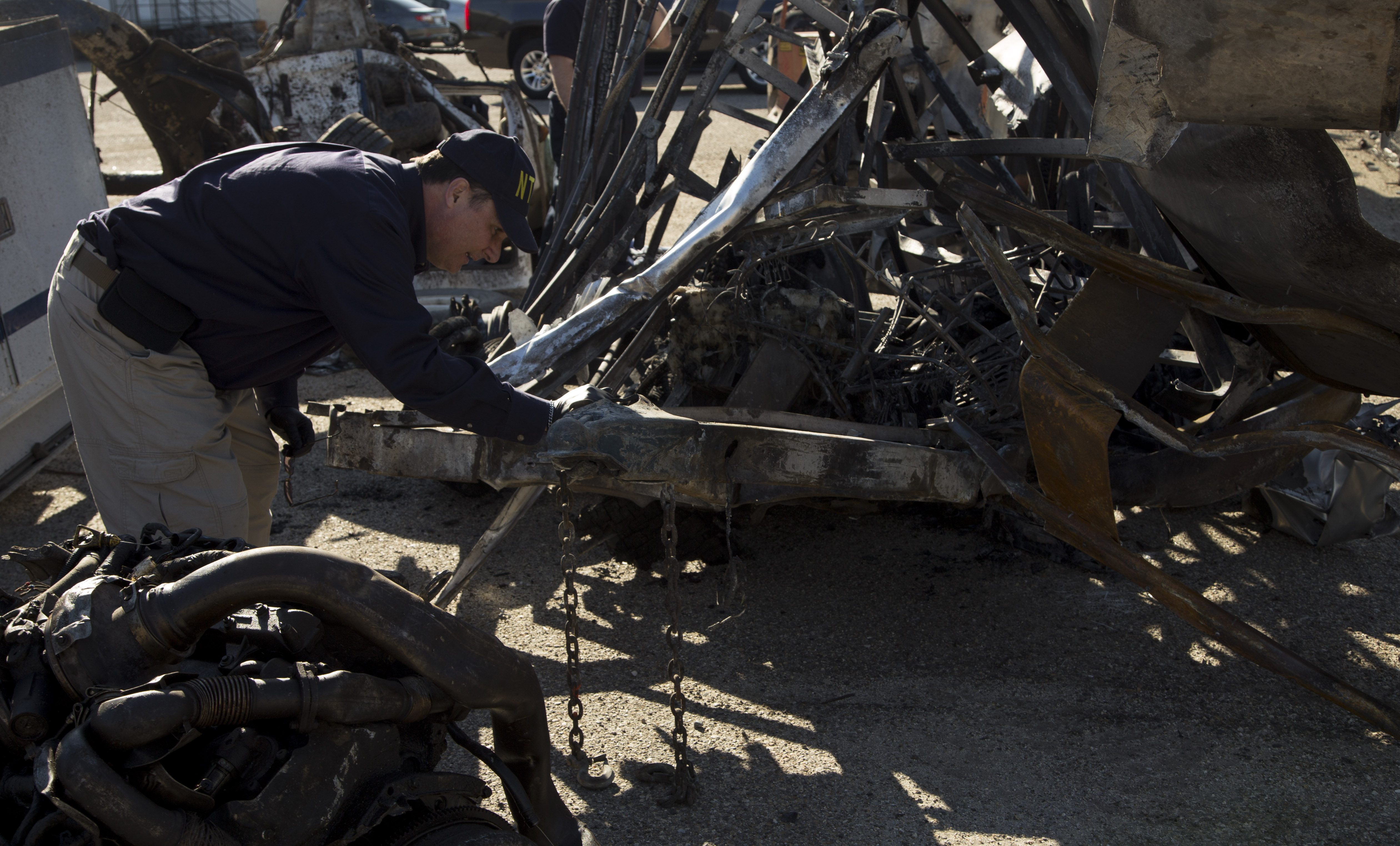 NTSB highway investigator Michael Fox examines mangled truck involved in CA grade crossing accident.